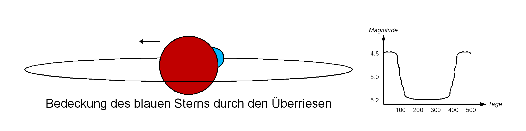 Eclipse of a brilliant blue star and a supergiant (VV Cephei Star). The blue star passes in front of the supergiant. This is what the light curve may look for VV Cephei. There is a complete dropping of the overall system's light when the blue star goes behind the larger supergiant.